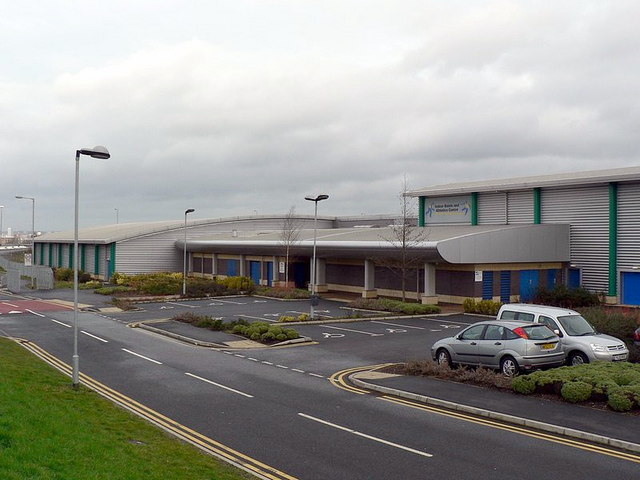 Indoor Bowls and Athletics Centre, John Charles Centre for Sport A fairly new facility at this extensive sports centre, formerly known as South Leeds Sports Centre. See interior 337670